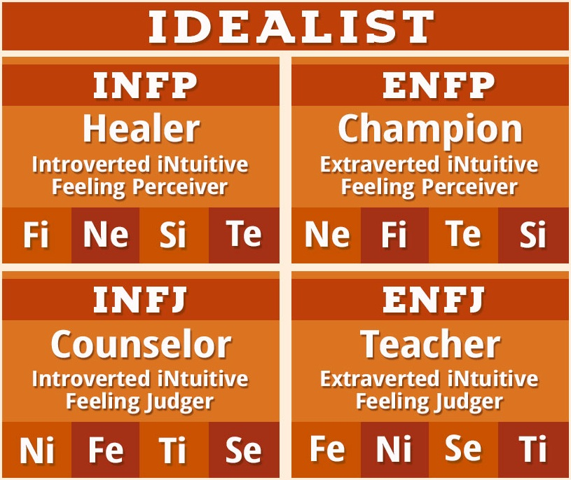 Idealist, INFP, ENFP, INFJ, ENFJ, Cognitive Functions and Keirsey Temperament